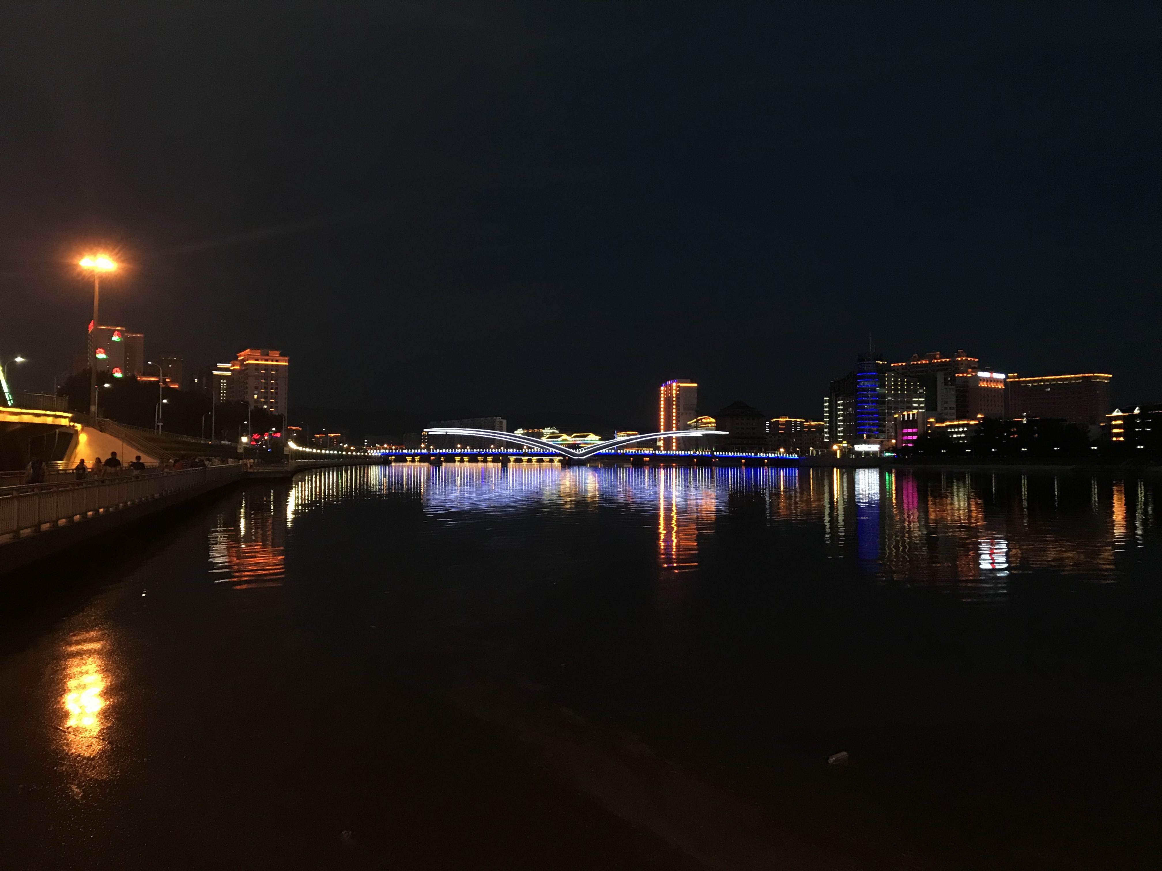 Yanji Bridge (Nightscape)